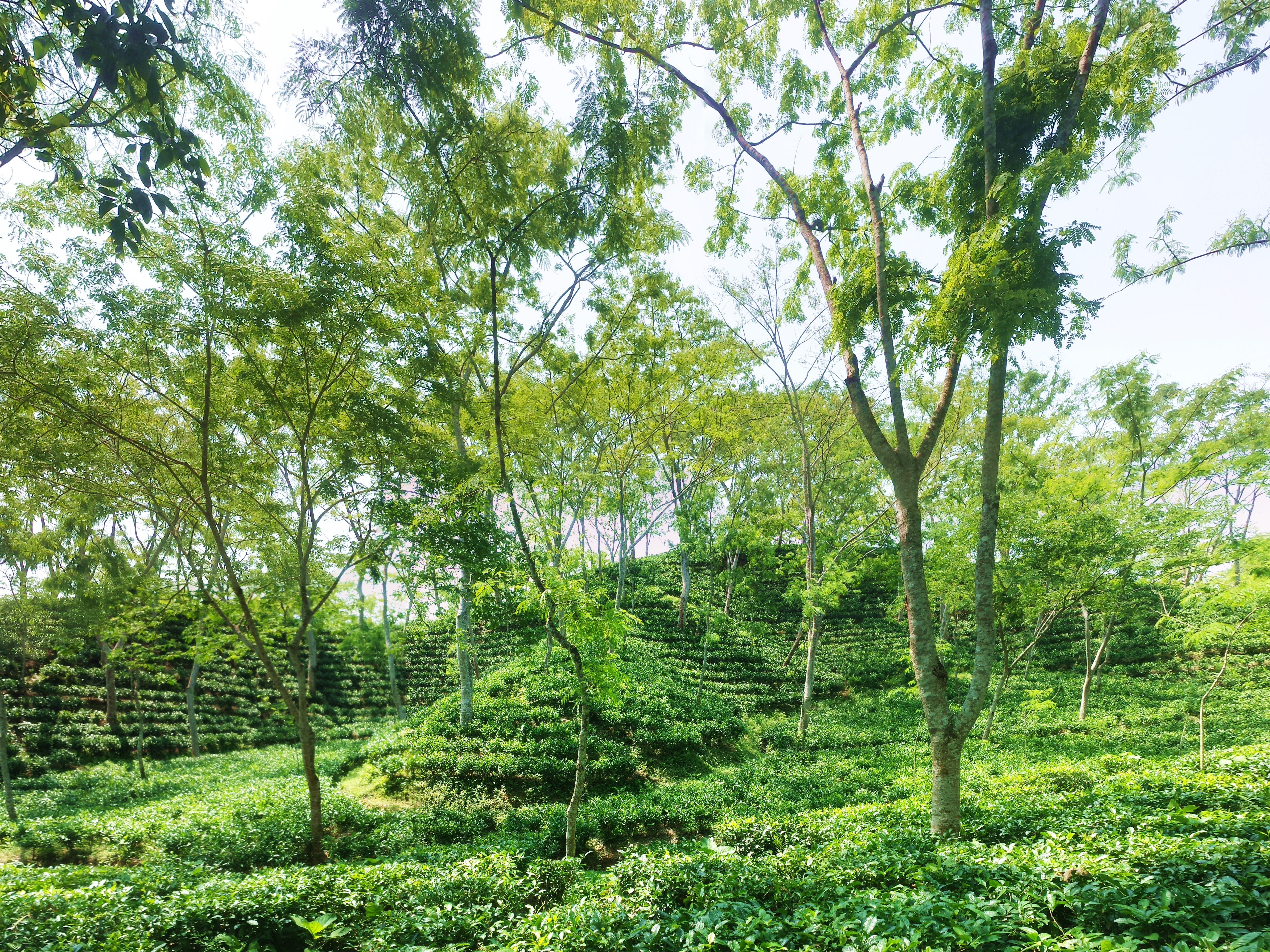 Sreemangal tea garden 2017-08-20